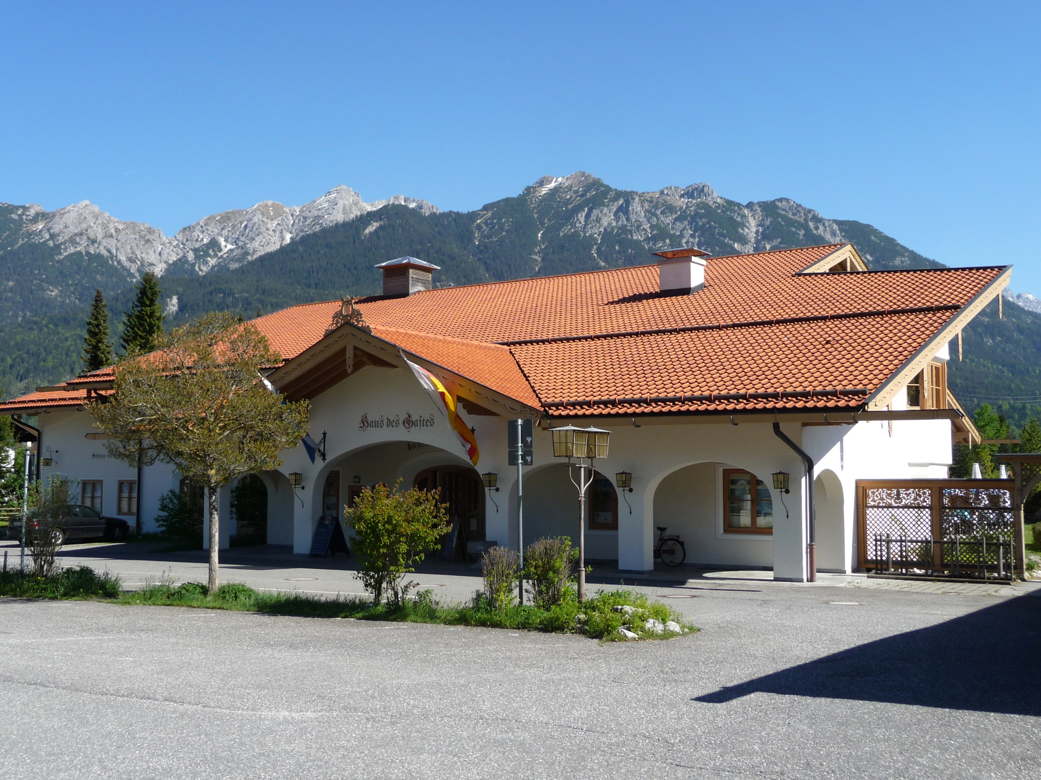 "Haus des Gastes", Wallgau, Germany